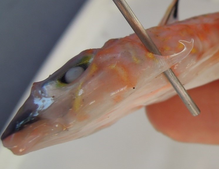 This picture shows the preopercular spine of the phaeton dragonet which can be used to identify the species. The preopercular spine is located on the gill and highlighted by the probe